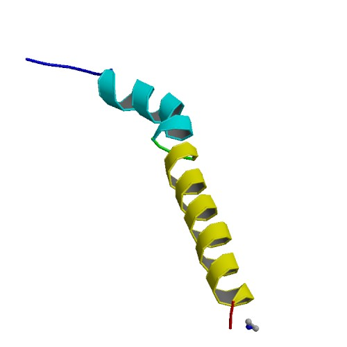 Corticotropin releasing hormone, PDB rendering based on 1go9